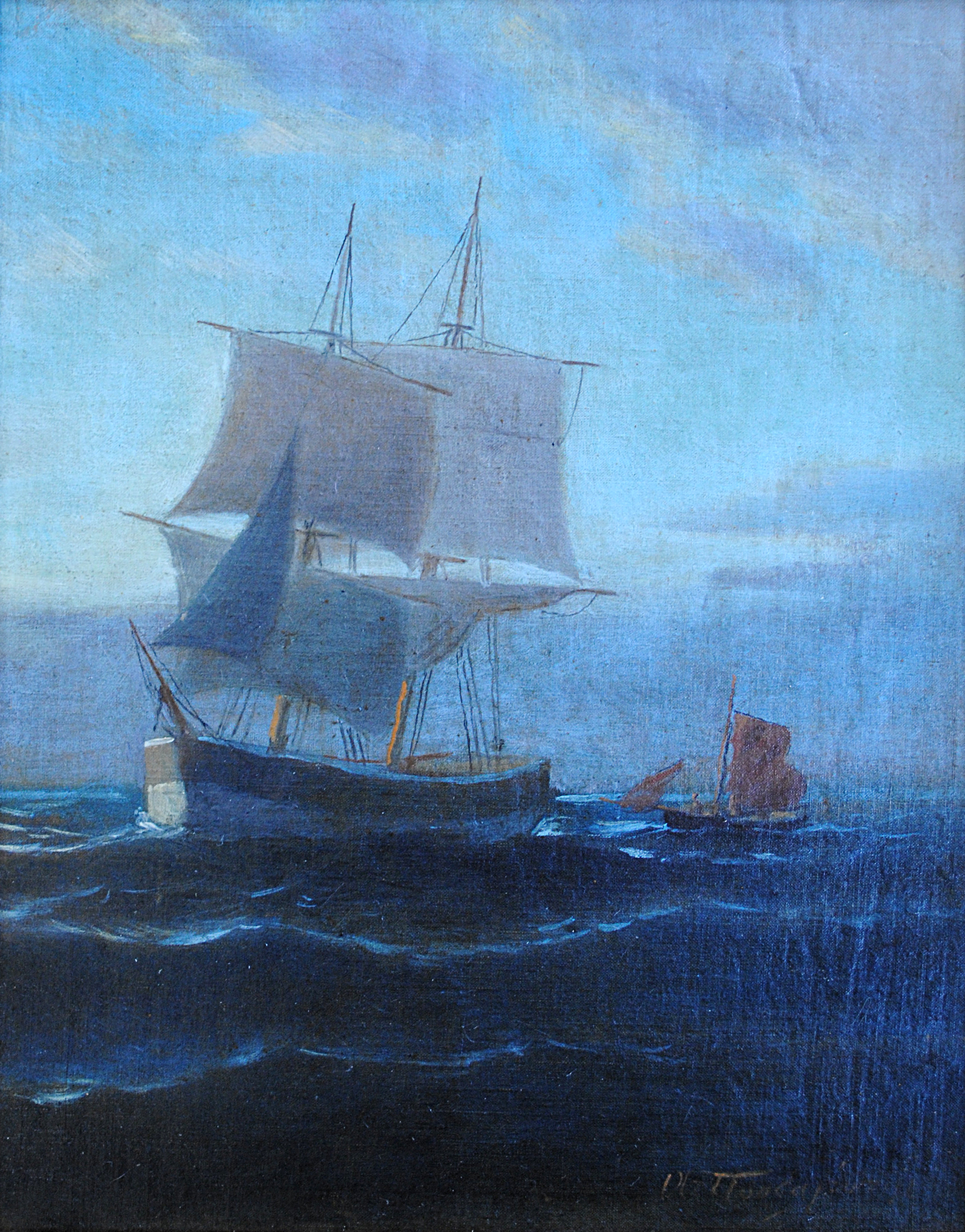 Aimilios Prosalentis, oil on canvas, 24 x 17 cm, Private Collection